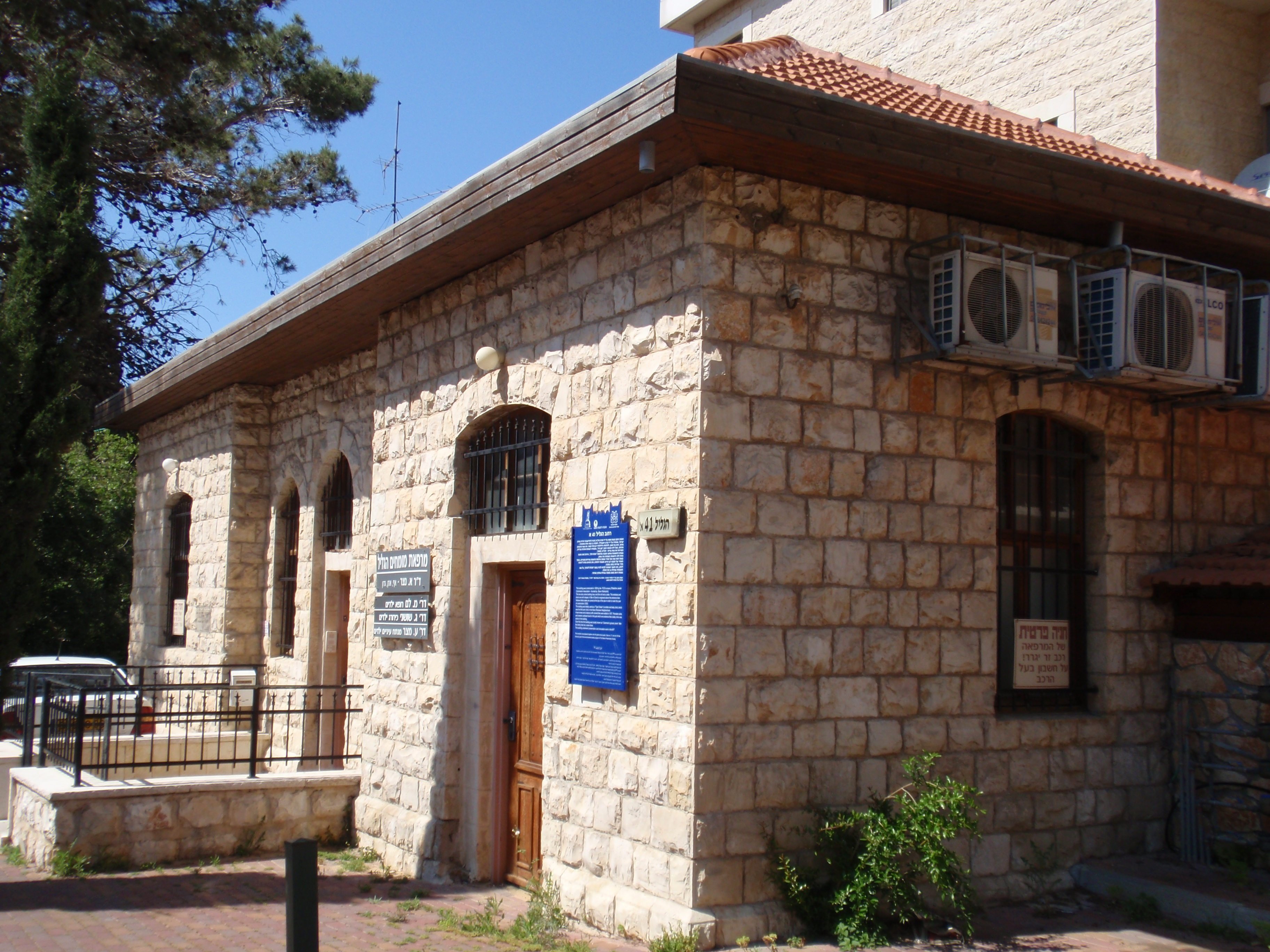 Mother and baby clinic (Tipat Chalav) in HaGalil street No.41a, Neve Sha'anan, Haifa.